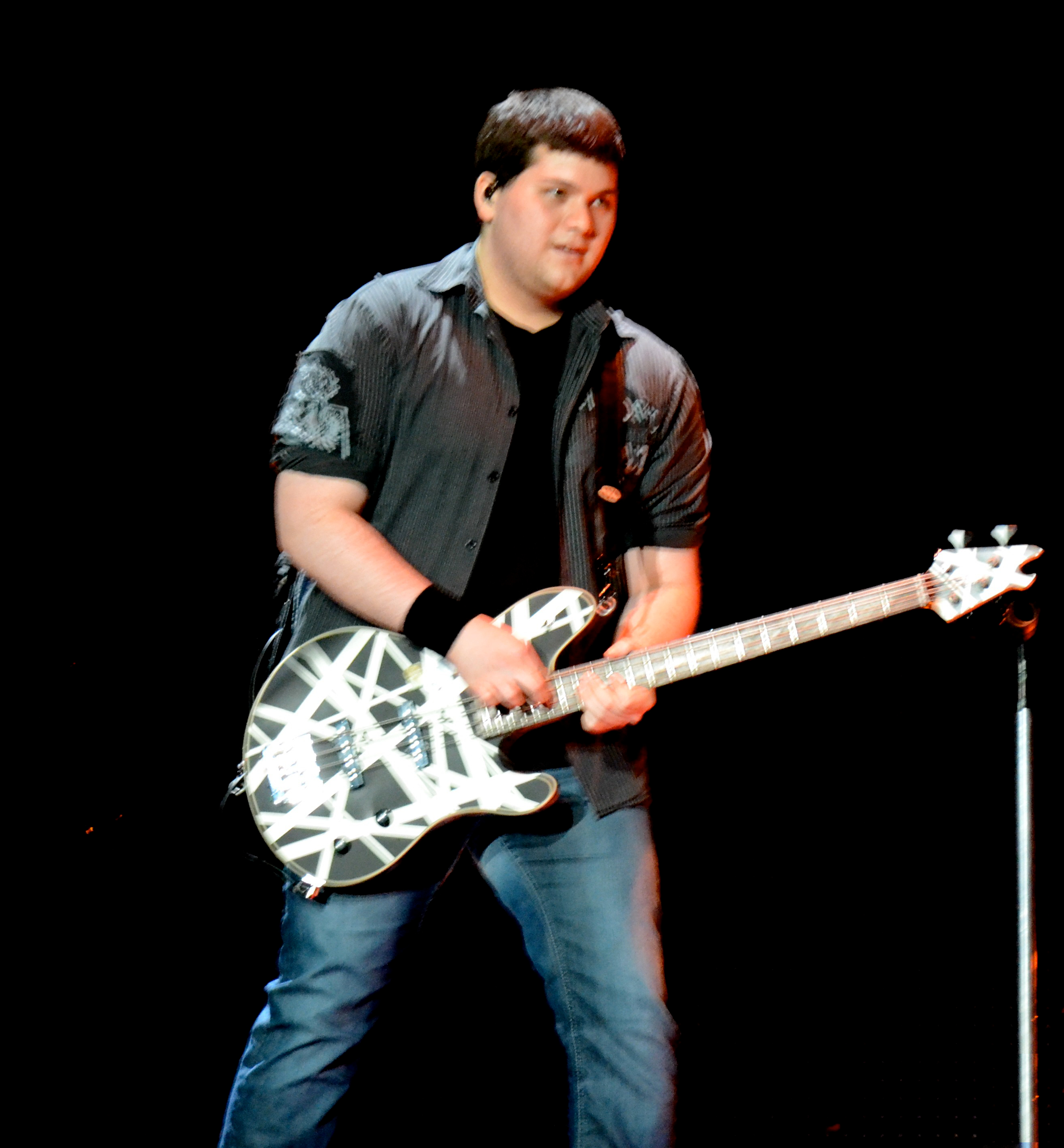 Cropped from source file for infobox. Overwrite with new infobox image.